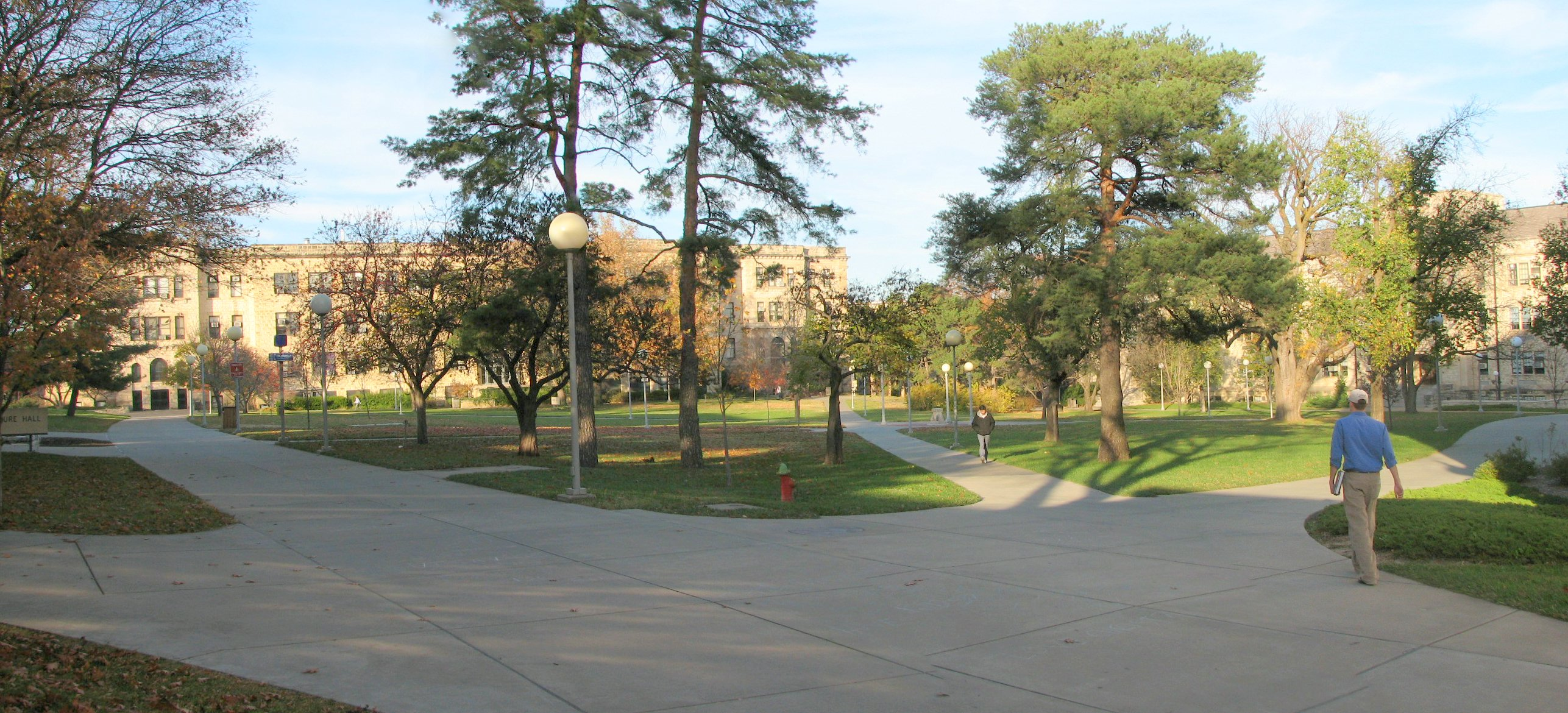 Manhattan, Kansas: A view into Waters Quad at Kansas State University.